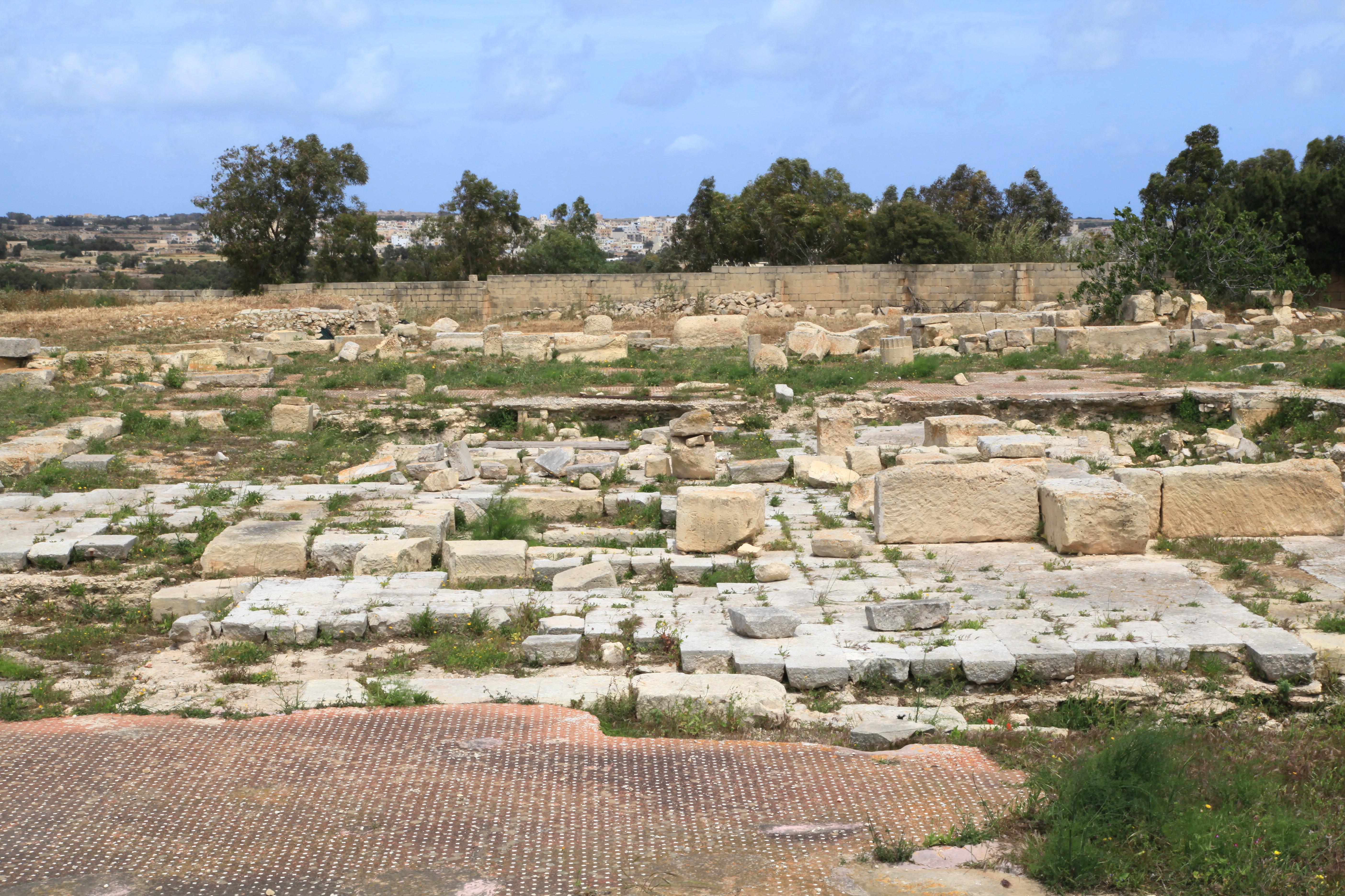 Tas-Silġ Temples, Triq Xrobb l-Għaġin in Marsaxlokk, Malta